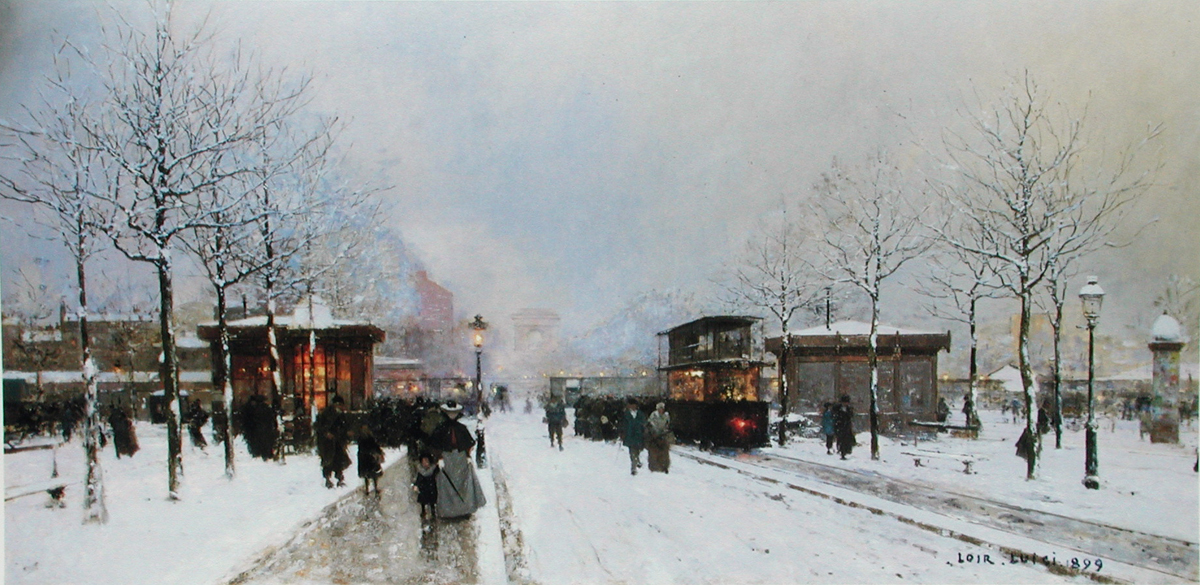 unknown